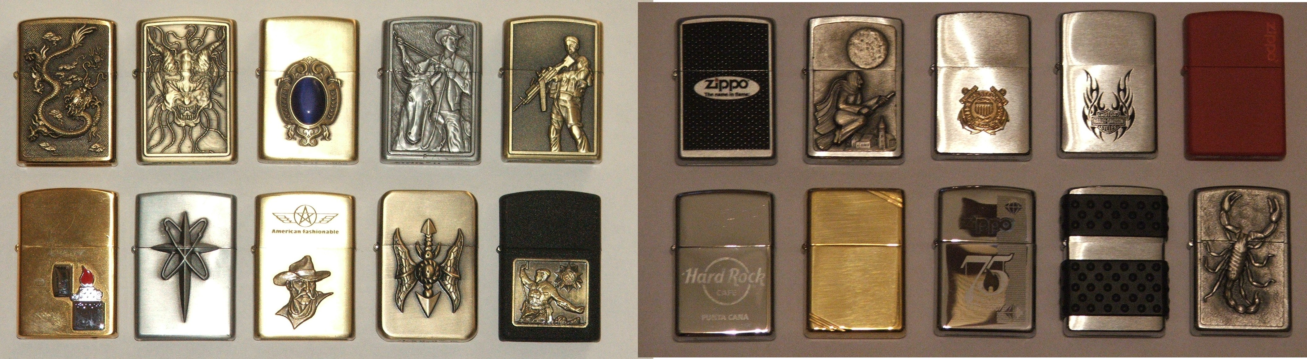 Chinese lighters vs. Zippo